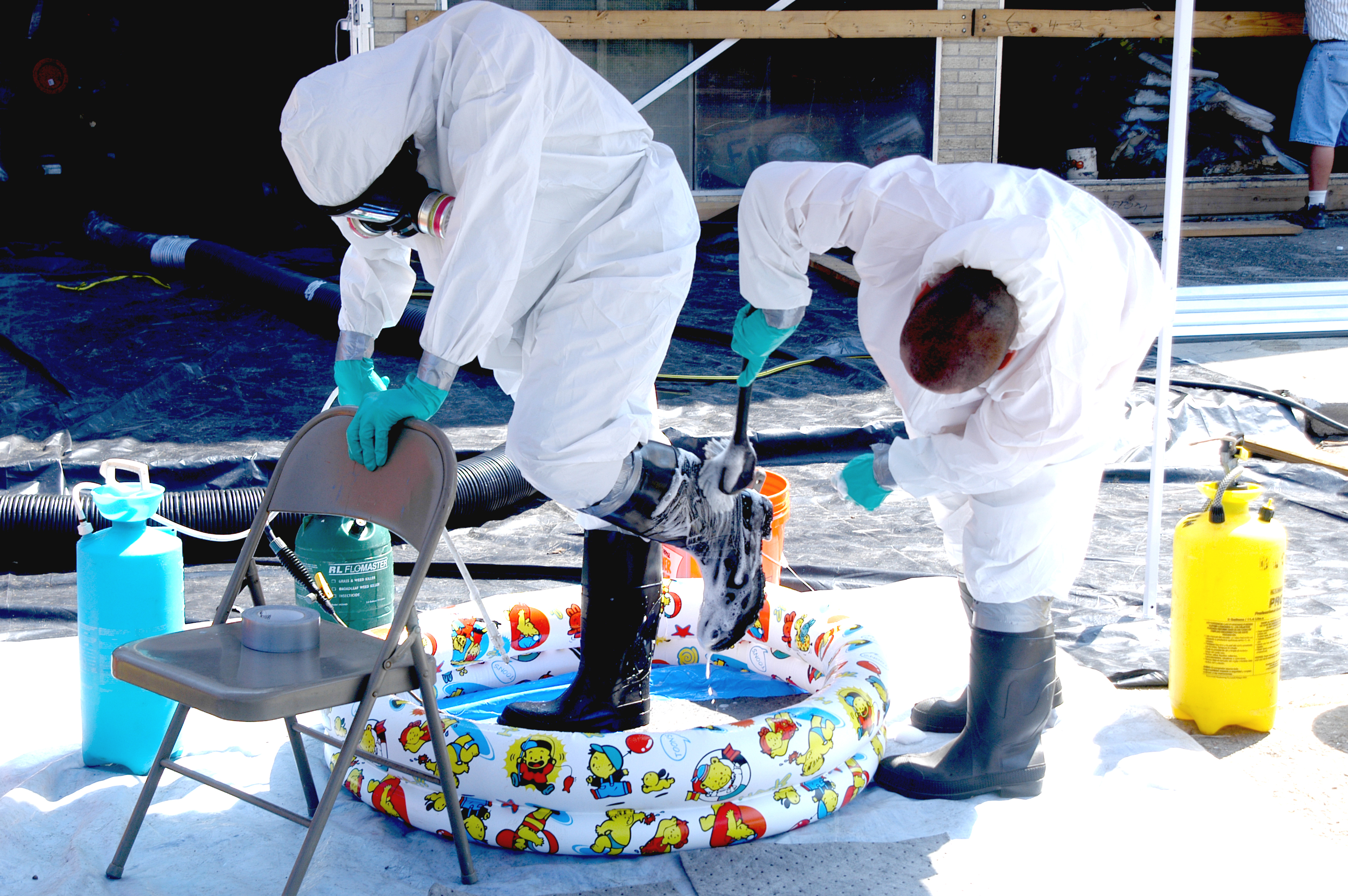 Slidell, La., September 28, 2005 - An enviromnmental cleanup firm's employee, upon exiting a toxic site now being cleaned up because of its hundereds of bags of ammnoia-producing decomposing fertilizers and animal feeds, gets help scrubbing down and decontaminating his clothing. The Environmental Protection Agency is in charge of all activities dealing with chemical spills and hadardous waste materials left behind by Hurricane Katrina. Win Henderson / FEMA